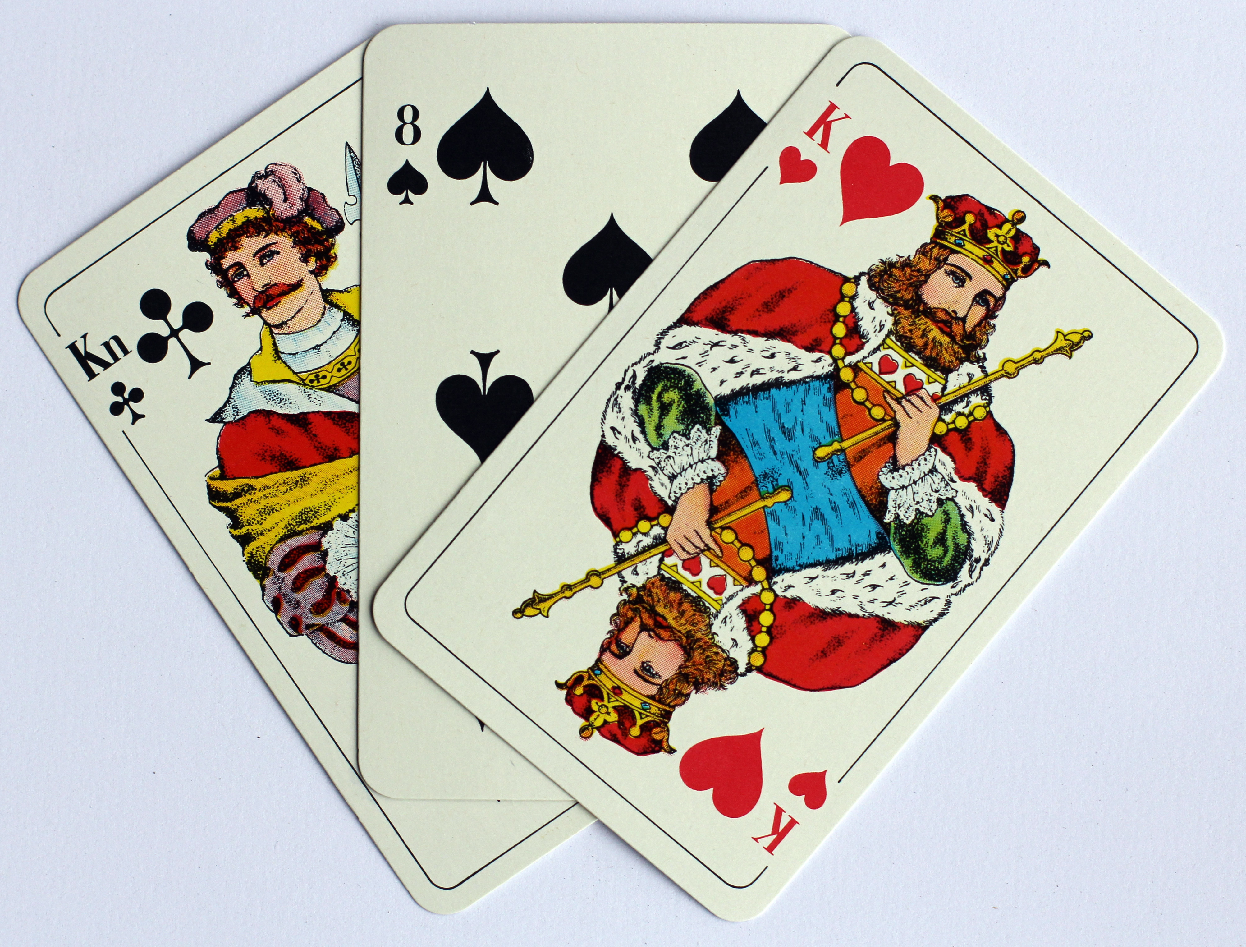 The three top trumps in the Swedish (Gotlandic) game of Bräus, known as the Spit, Dull and Bräus.